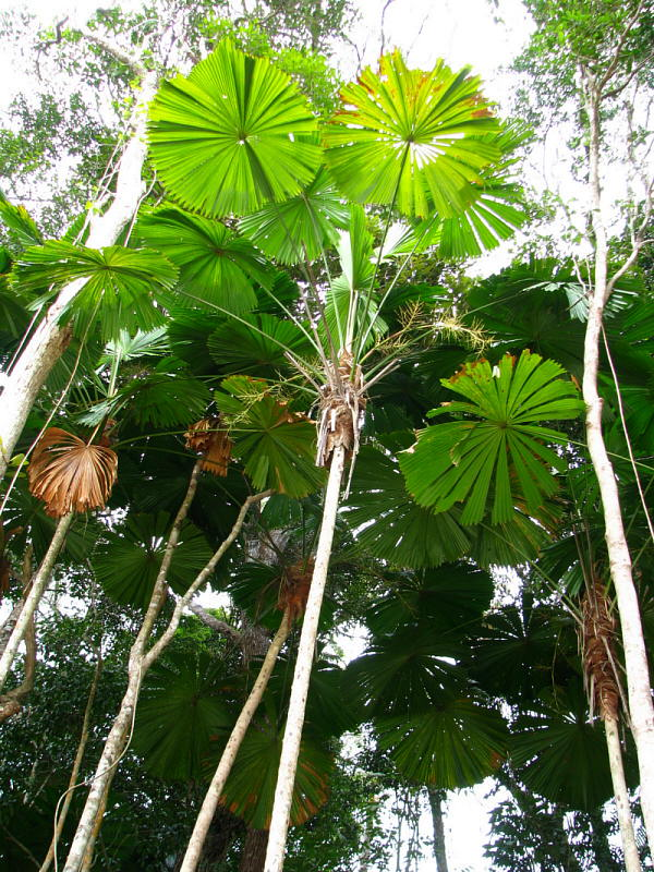 In Acacia/rainforest transition forest, in a residential subdivision off Black Mountain Road, Kuranda, north Queensland.